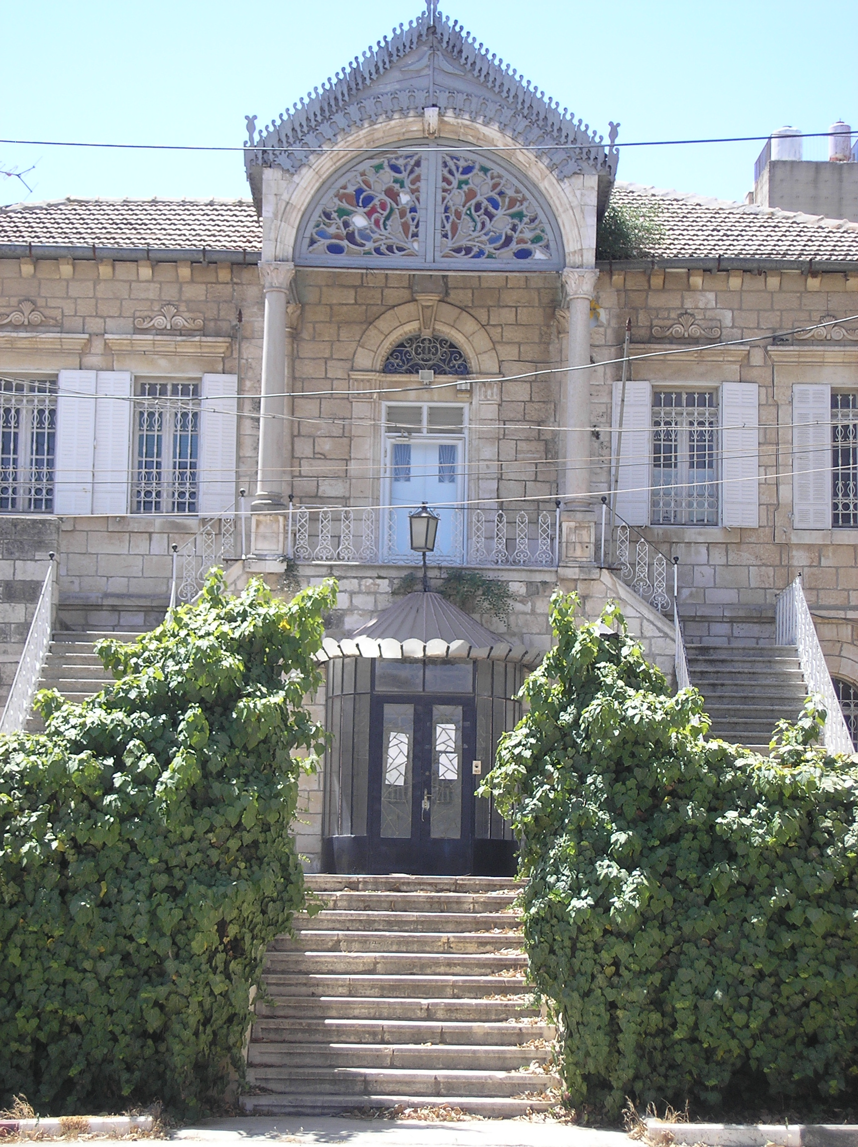 Jerusalem, 8 Abu Obeidah Ibn el-Jarah Street, Orient House